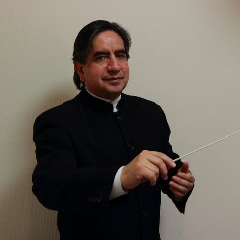 Rubén Silva director